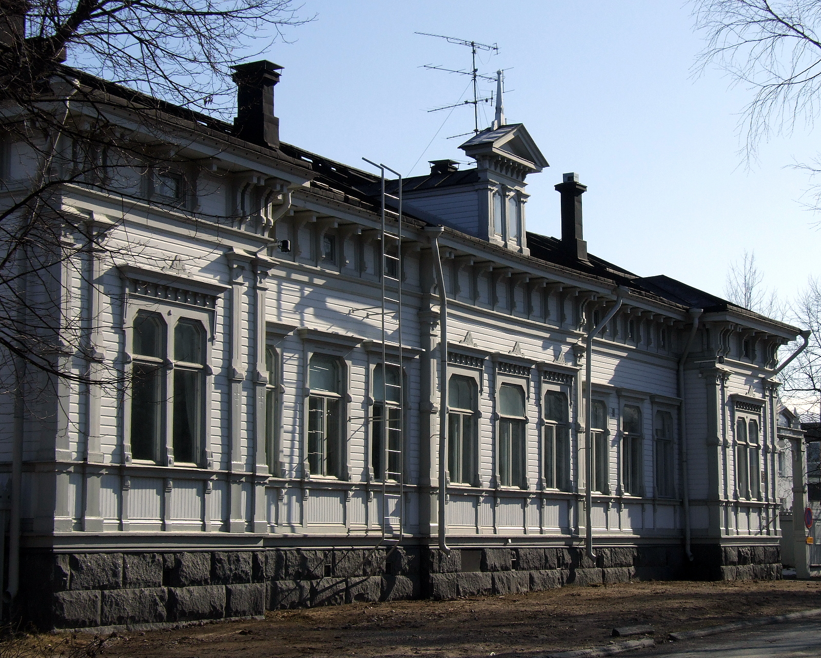 The Rauhala Villa Restaurant in Oulu, Finland. The villa was designed by architect Arthur Kajanus and it was built in 1898.